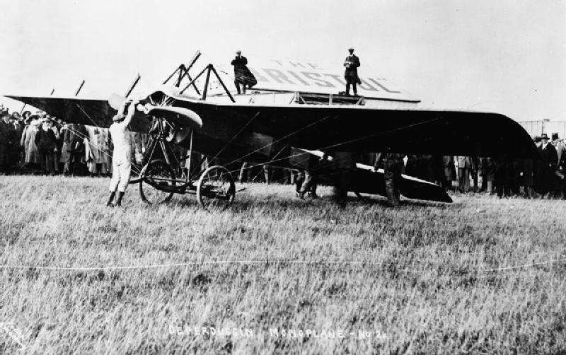 Aviation in Britain Before the First World War A Deperdussin monoplane being started at the 1912 Military Aircraft Trials on Salisbury Plain. A caption identifying this as entrant no.21 is faintly visible at the bottom of the picture